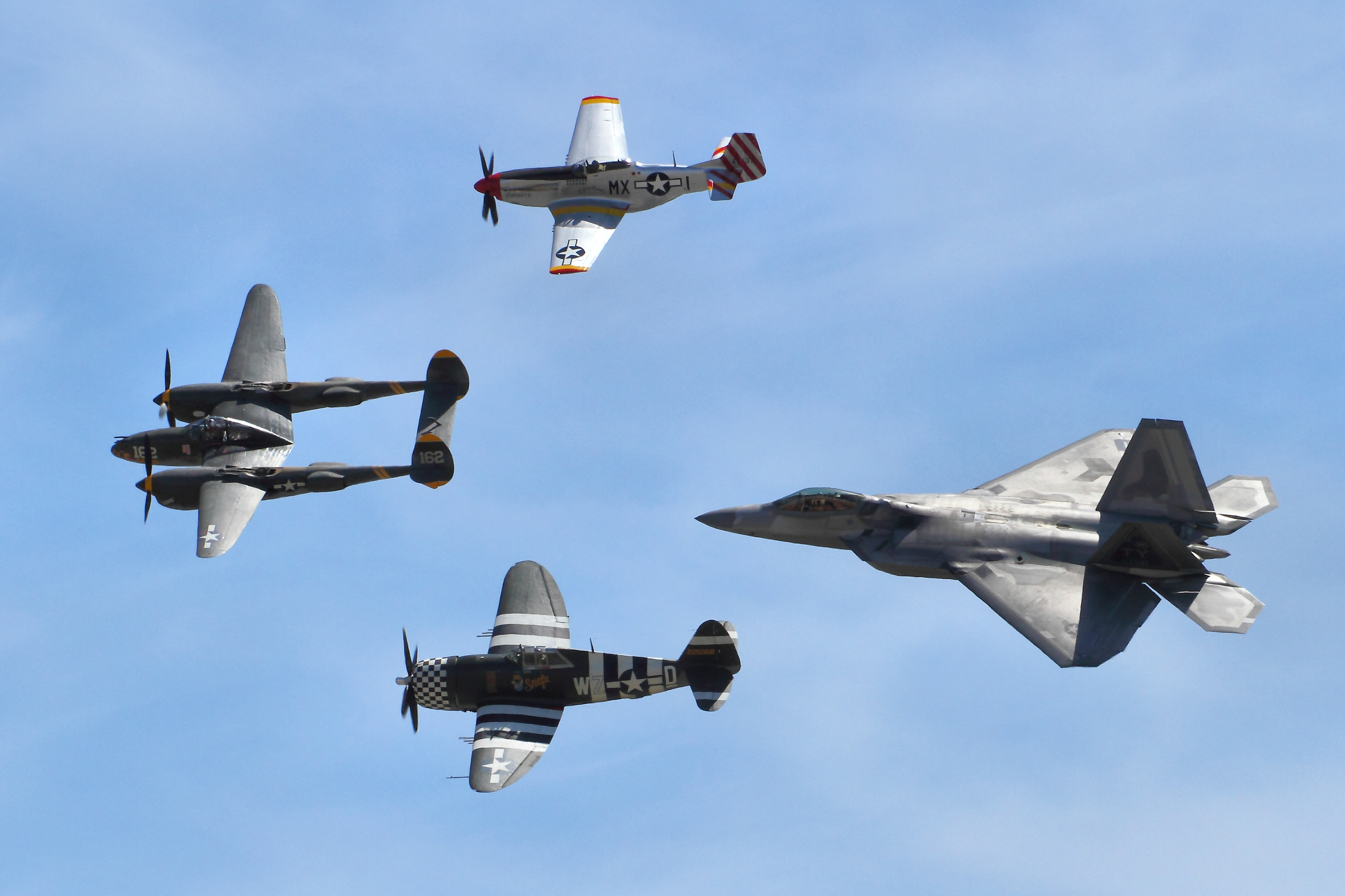 USAF Heritage Flight - Chino Airshow 2014